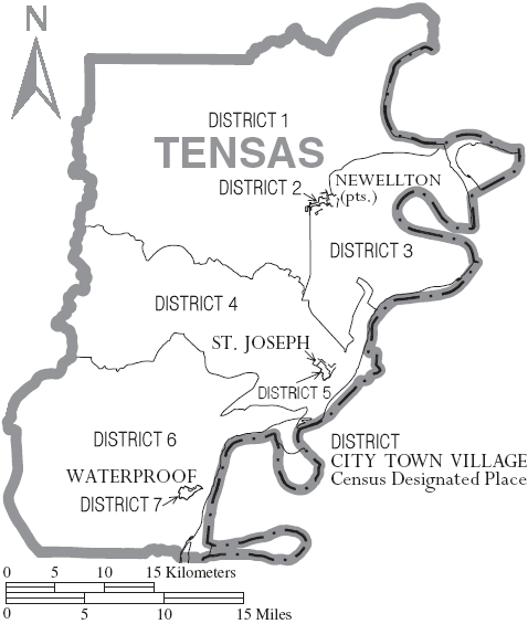 Map of Tensas Parish, Louisiana, United States with municipal and district boundaries